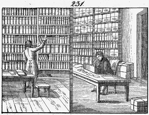 Library